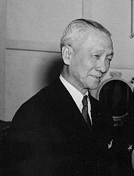 Cropped photo of then-vice-presdient Sergio Osmeña from this Navy Photo